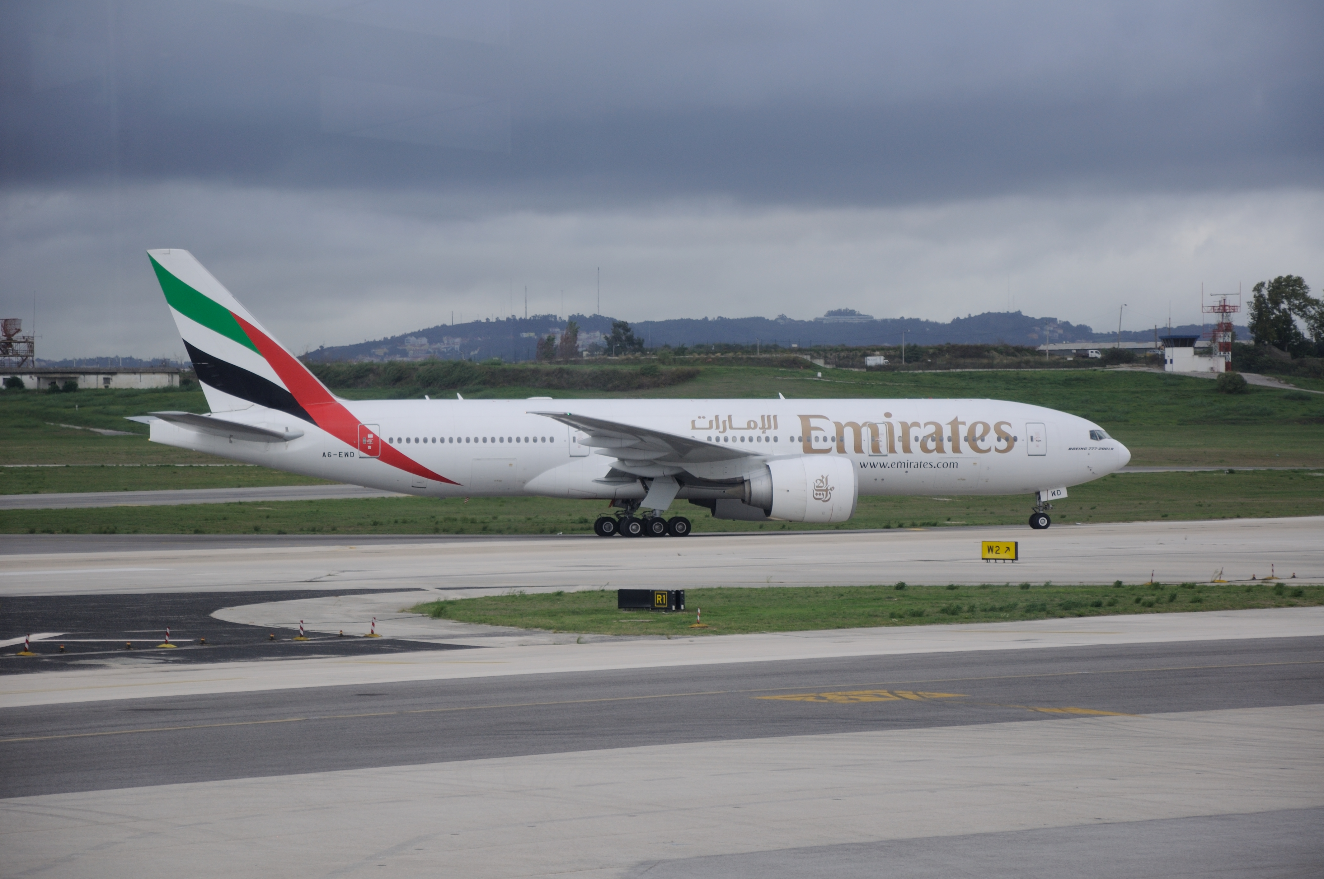 Portugal, spotting at Lisbon Portela Airport